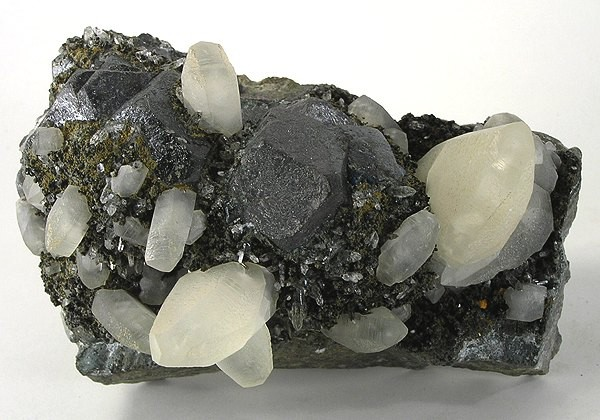 Magnetite, Calcite Locality: Dashkesan (Dashkezan) Co-Fe deposit, Dashkesan, Daşkəsən (Daskasan; Dashkyasan) District, Azerbaijan (Locality at ) Size: 11.9 x 8.2 x 7.4 cm. A large KILLER specimen of magnetite from the former Soviet Republic, with sharp crystals up to 3 cm across piled up on the matrix, and accented by translucent, silky scalenohedrons of calcite. This is a very hard thing to obtain. The crystals are huge and of a rare habit for magnetite.